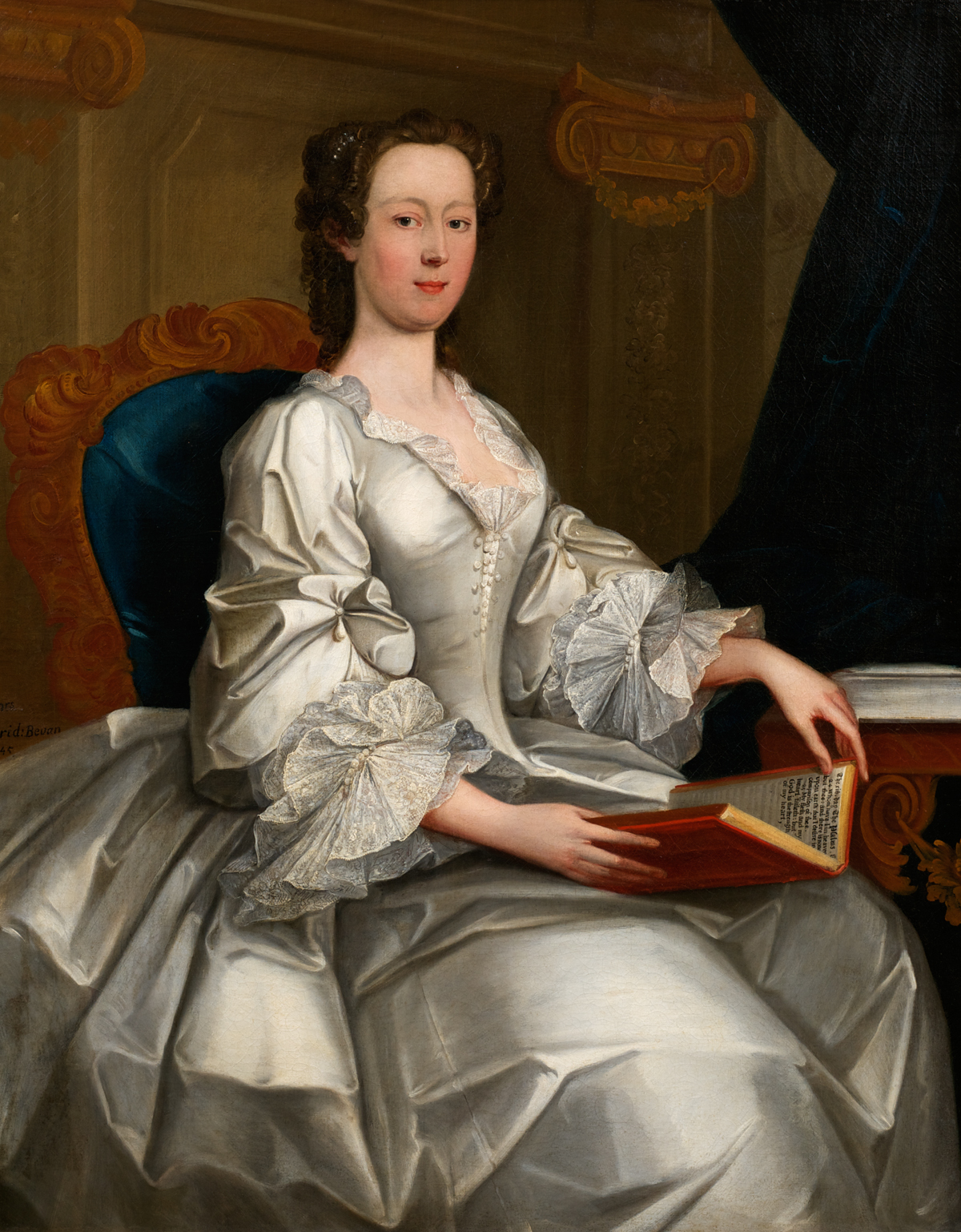 Portrait of the Welsh Philanthropist and educator Bridget Bevan (1698-1779)